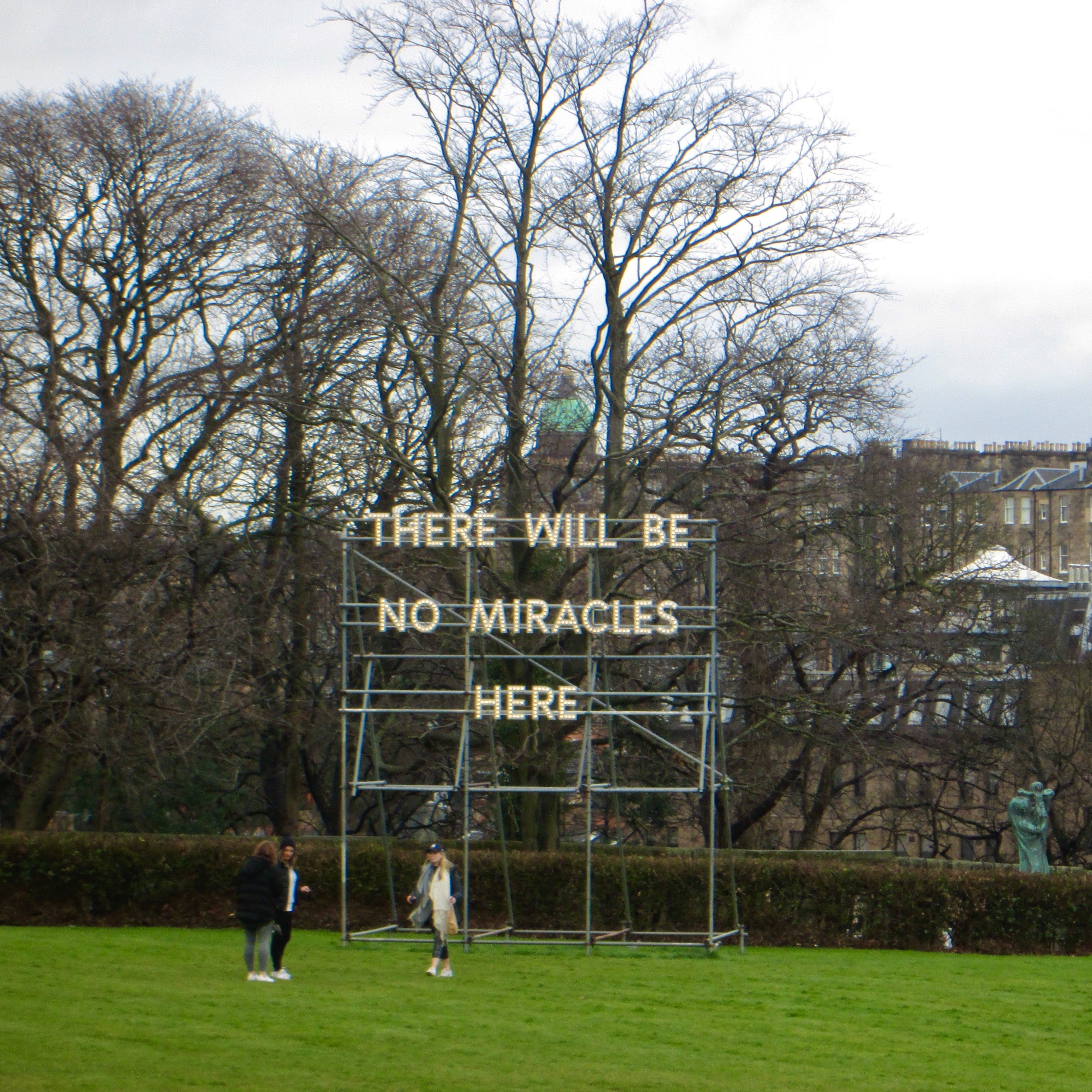 Artwork by Nathan Coley, on display at the Scottish National Gallery of Modern Art's Dean Gallery. The blue dome in the background is St George's Church in Charlotte Square.